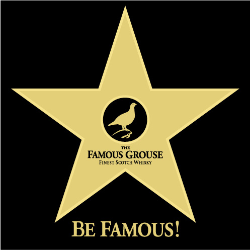 Famous Star Logo